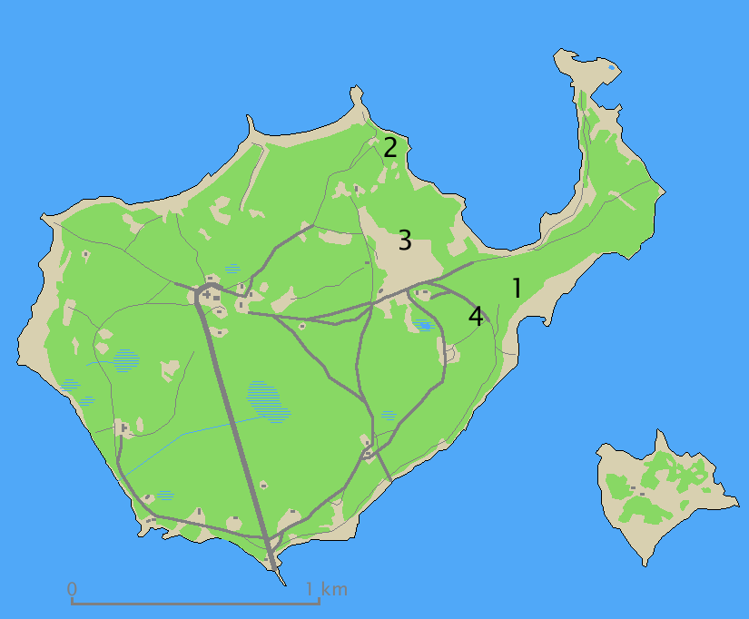 Aegna historical places